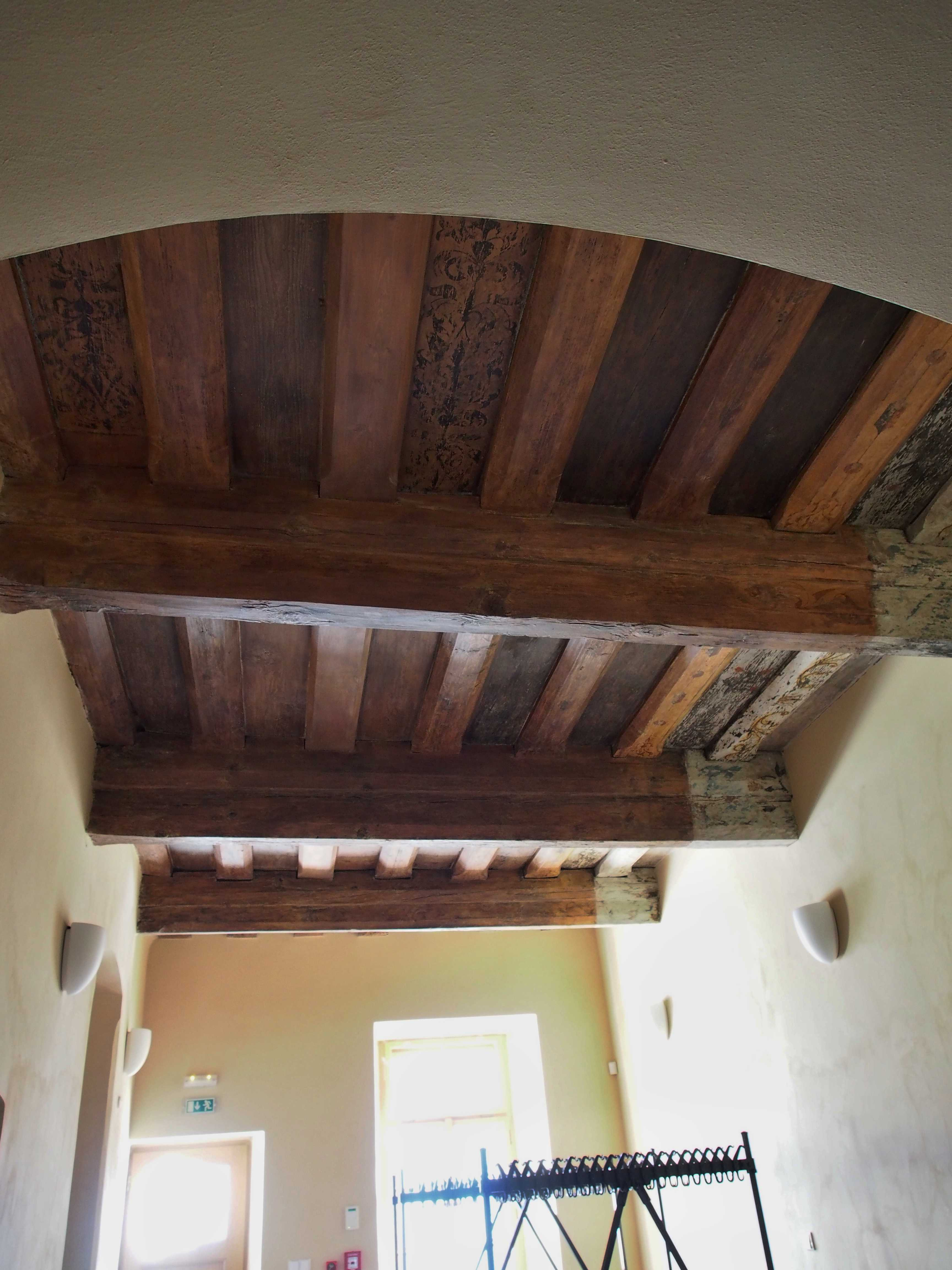 wooden ceiling